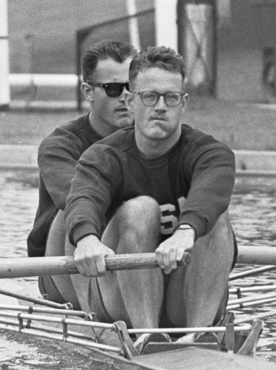 Thomas and Joseph Amlong at the 1964 European Championships [1]